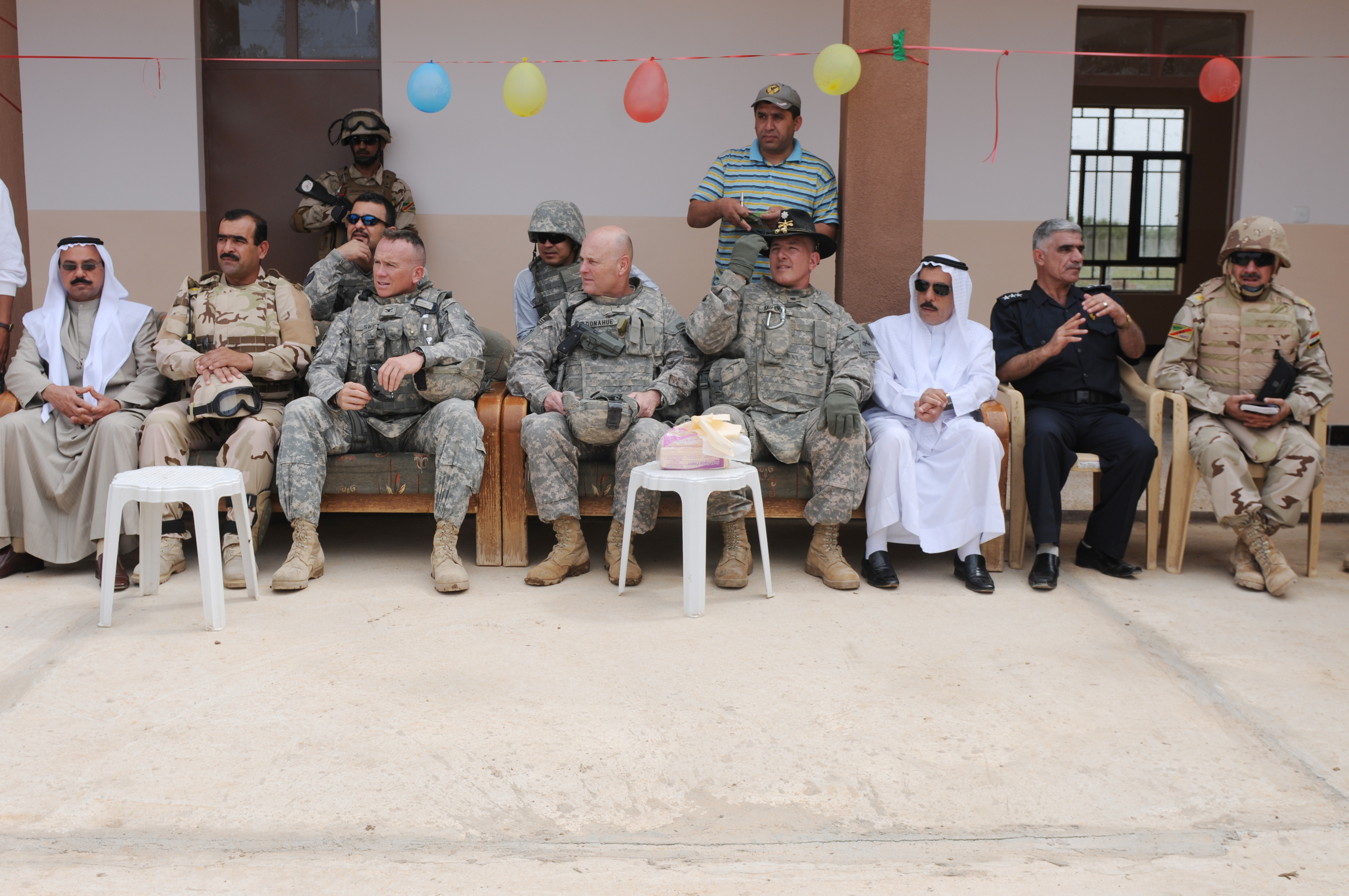 Ahmed Kurdin Nasahr, a member of the Rashaad Sub-district Council, An Iraqi officer, U.S. Col. Larry Swift, commander, Ready First, 1st Brigade Combat Team, 1st Armored Division, Brig. Gen. Patrick J. Donahue, II, deputy commanding general (Maneuver) 3rd Infantry Division, Lt. Col. Brian McHugh, squadron commander, 6th Squadron, 1st Cavalry, 1st Brigade Combat Team, 1st Armored Division, Ahmed Omaeer, muktar, of Nasaria, Iraq, and Capt. Ahmad Ghaffur Qassin, chief, Rashaad Iraqi Police Station, sit together to watch the ribbon cutting ceremony for Nasaria School May 3, 2010. U.S. Soldiers from 6-1 CAV joined members of the Rashaad Sub-distrcit Council in a ribbon cutting ceremony for the school which will support five villages and more than 75 students.